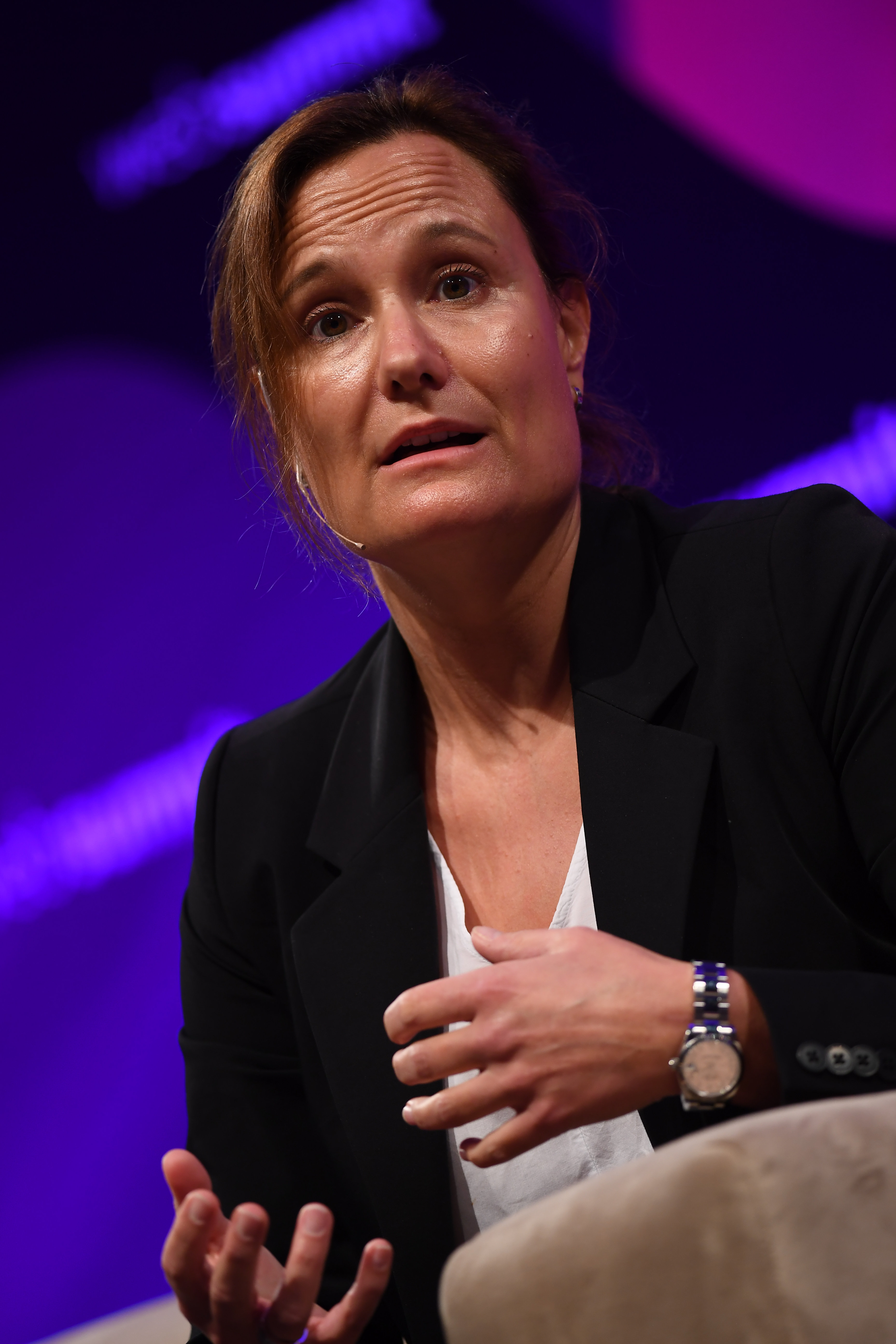 8 November 2017; Gillian Tans, President & CEO, , on PandaConf Stage during day two of Web Summit 2017 at Altice Arena in Lisbon. Photo by Stephen McCarthy/Web Summit via Sportsfile